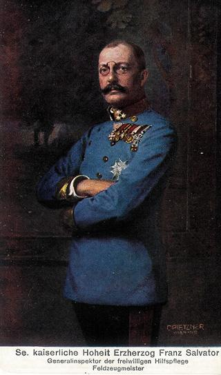 Archduke Franz Salvator of Austria-Toscana 1866-1939, husband of Archduchess Maria Valeria of Austria